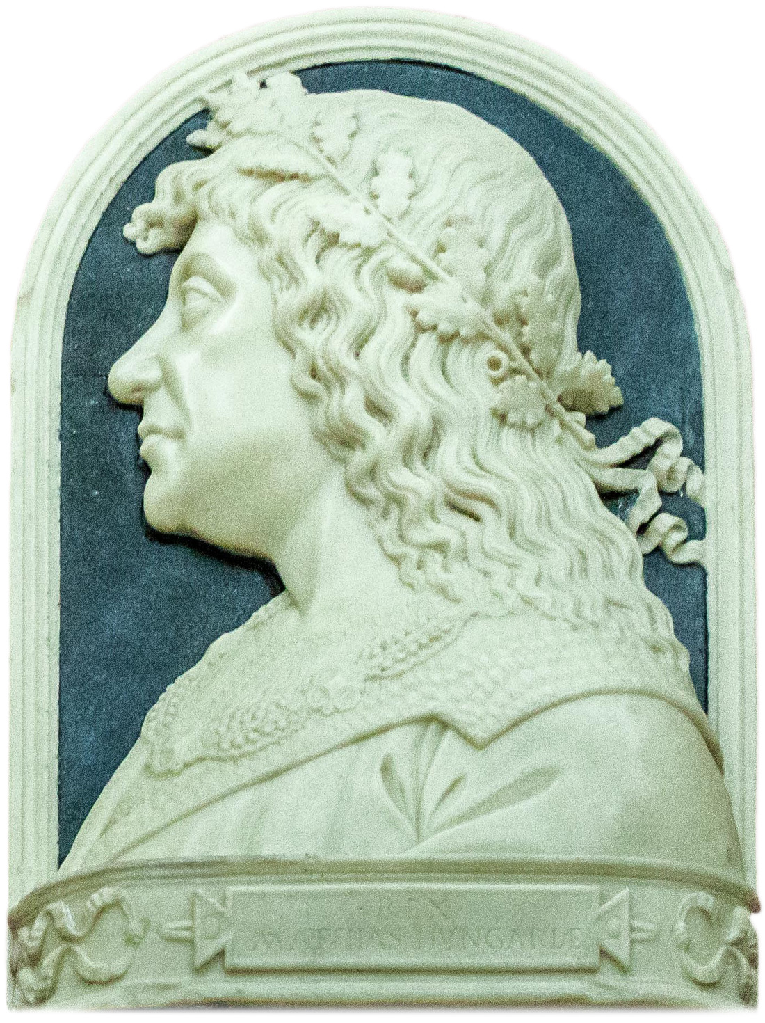 Porträt Matthias Corvinus from Image:Beatrix und Matthias.jpg